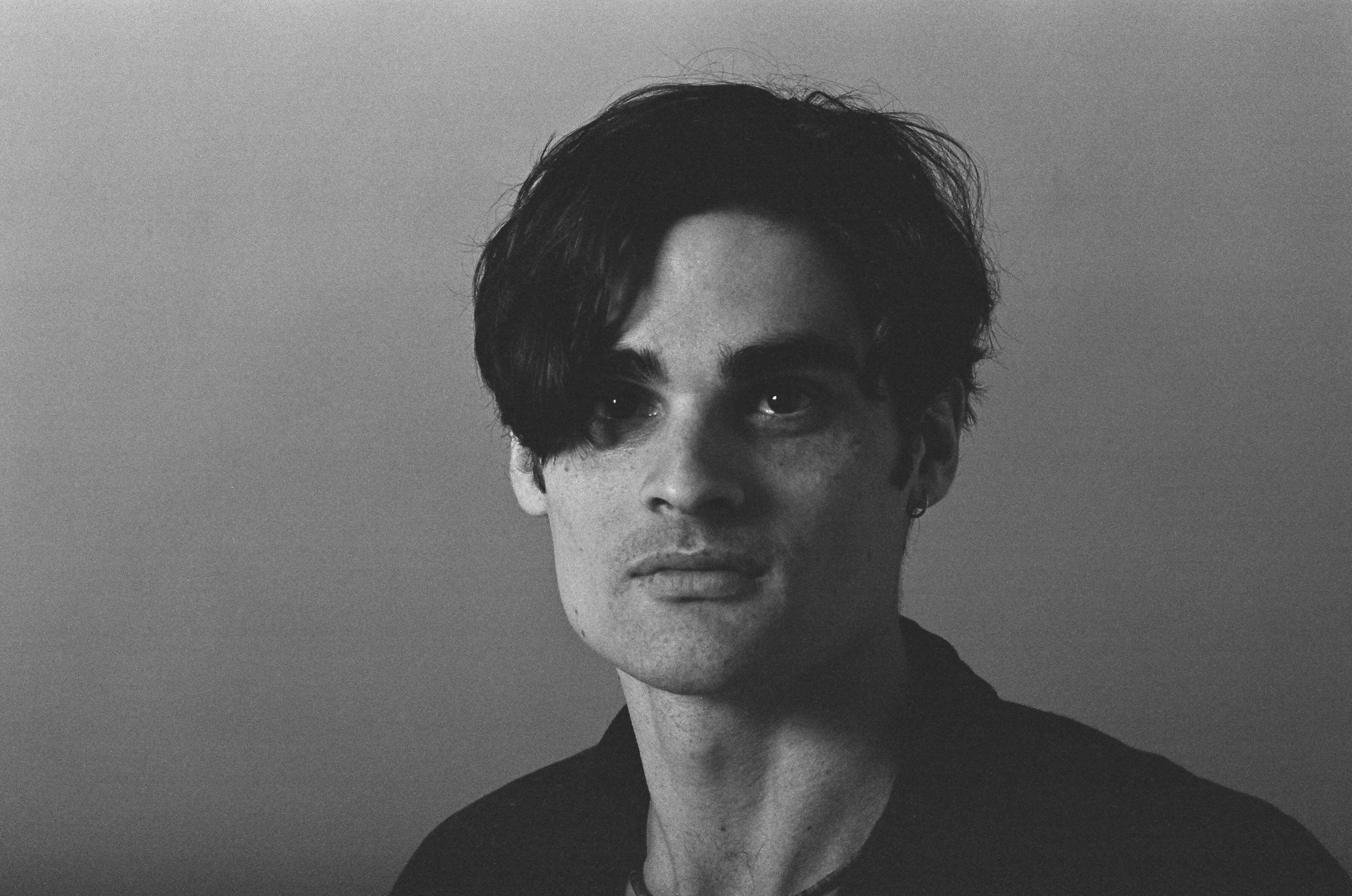 Noah K in Brooklyn, New York, 2016.